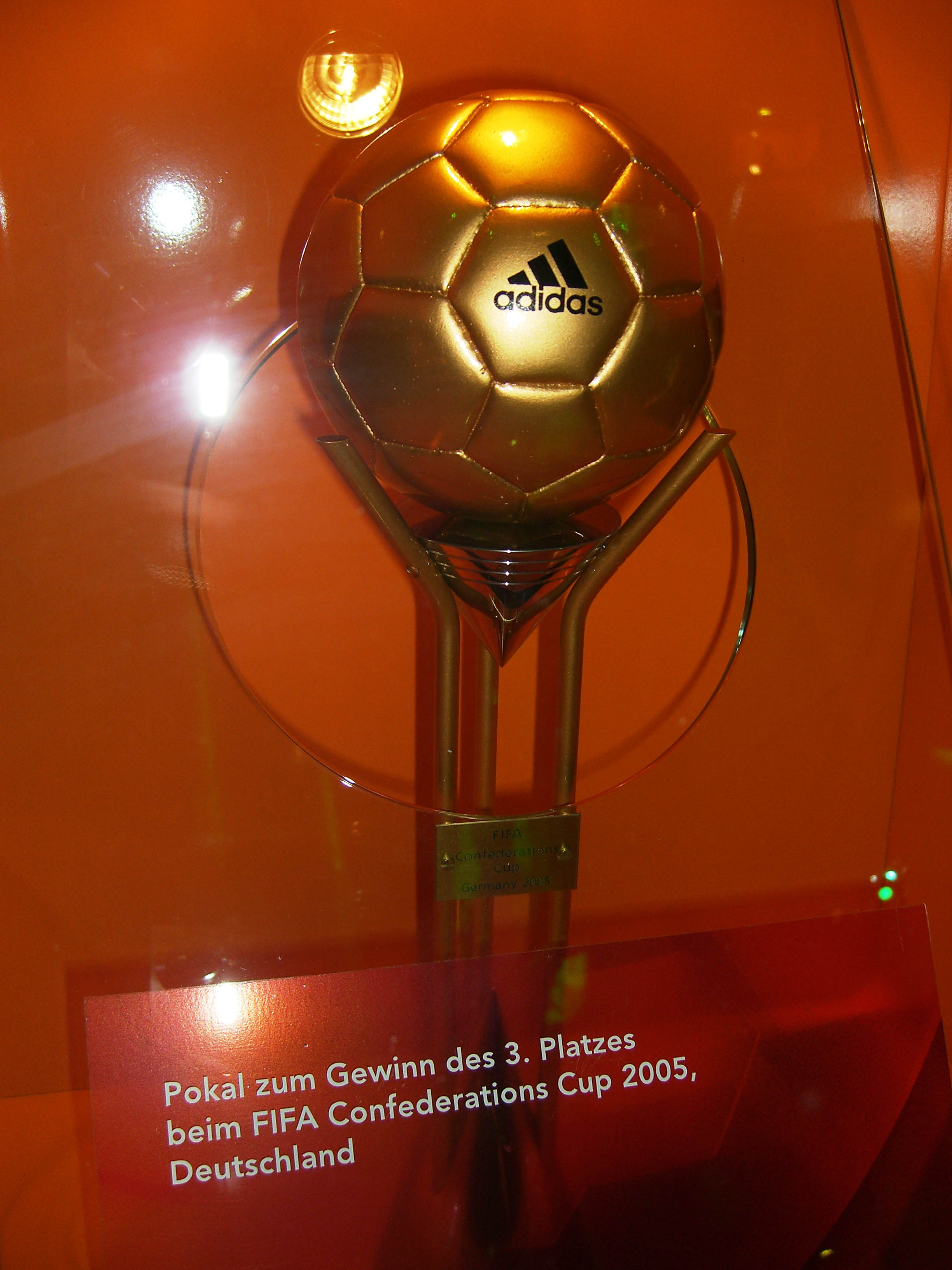 Confederation Cup 2005; trophy of 3rd place